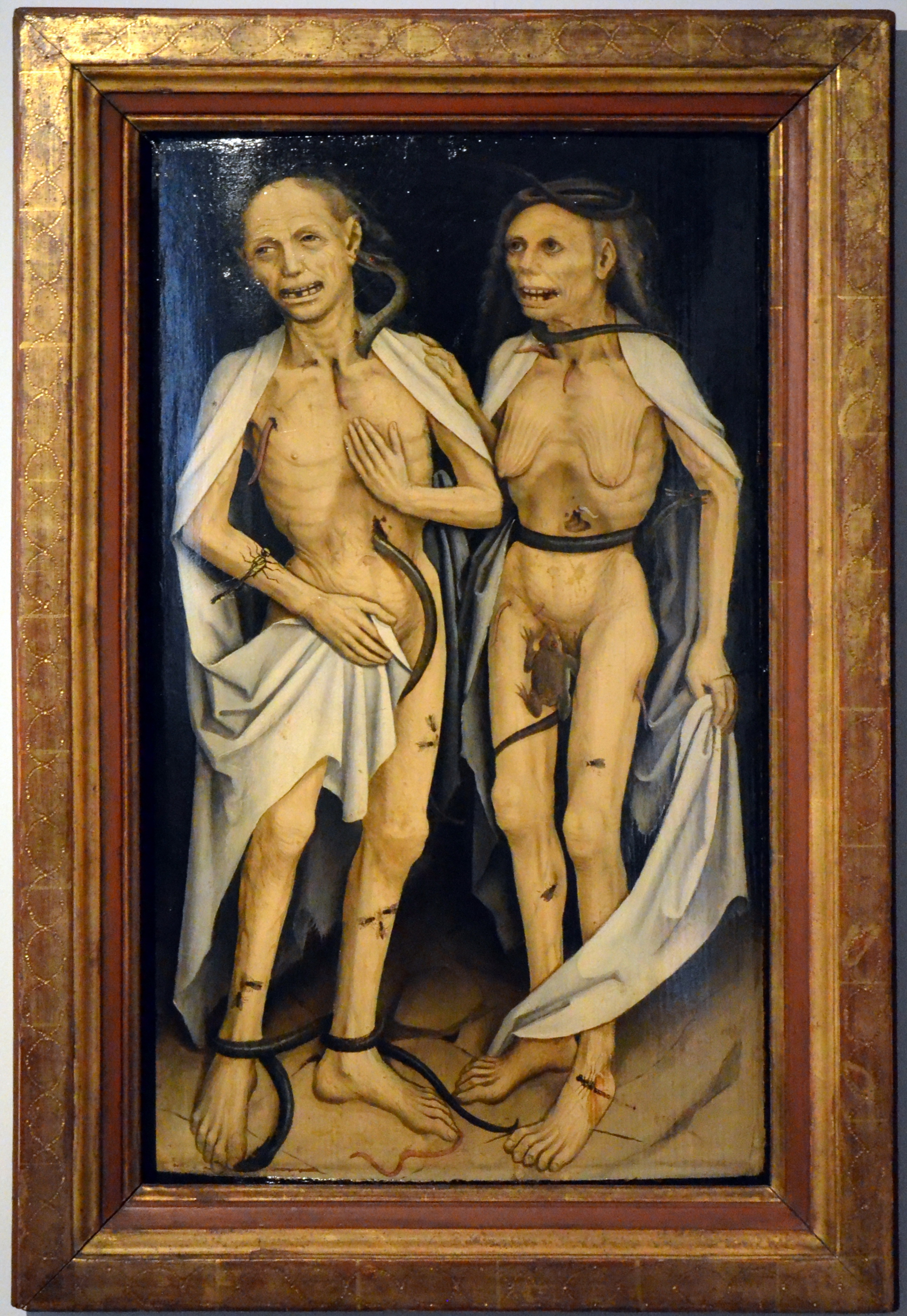 Strasbourg, Musée de l'Œuvre Notre-Dame: deceased lovers